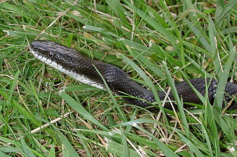 Black rat snake, Elaphe obsoleta , Baltimore, USA.